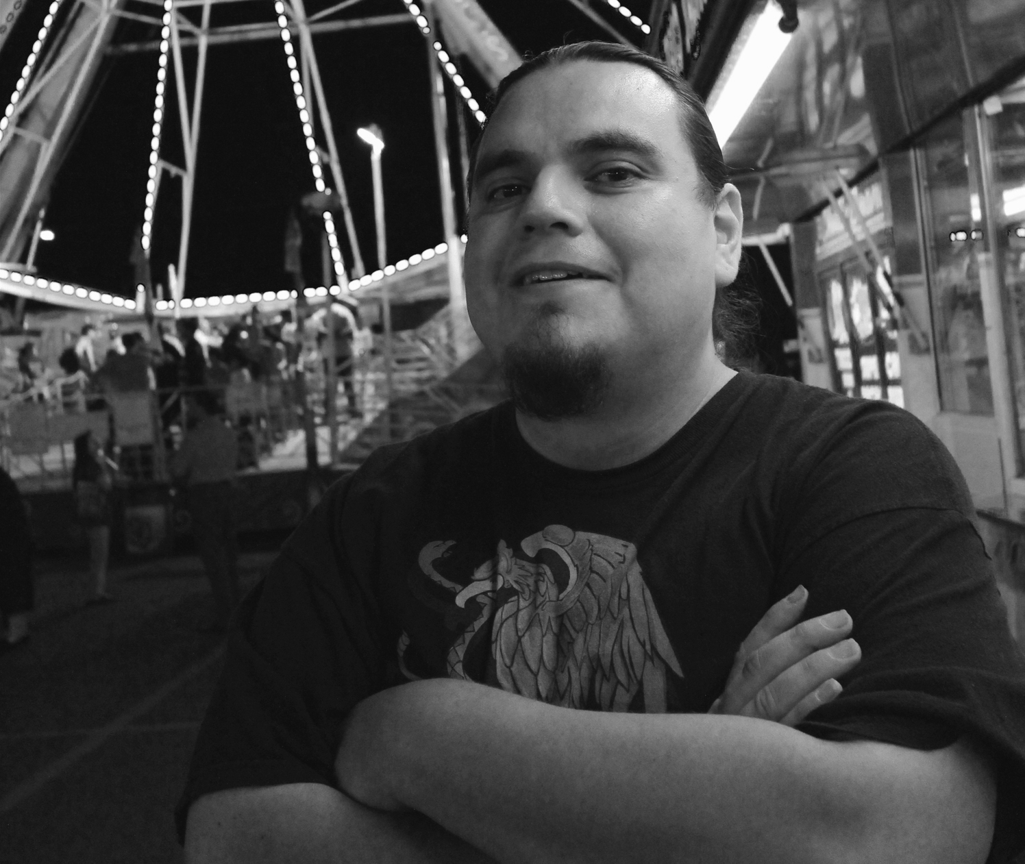 Picture of Jesus Barraza by Melanie Cervantes